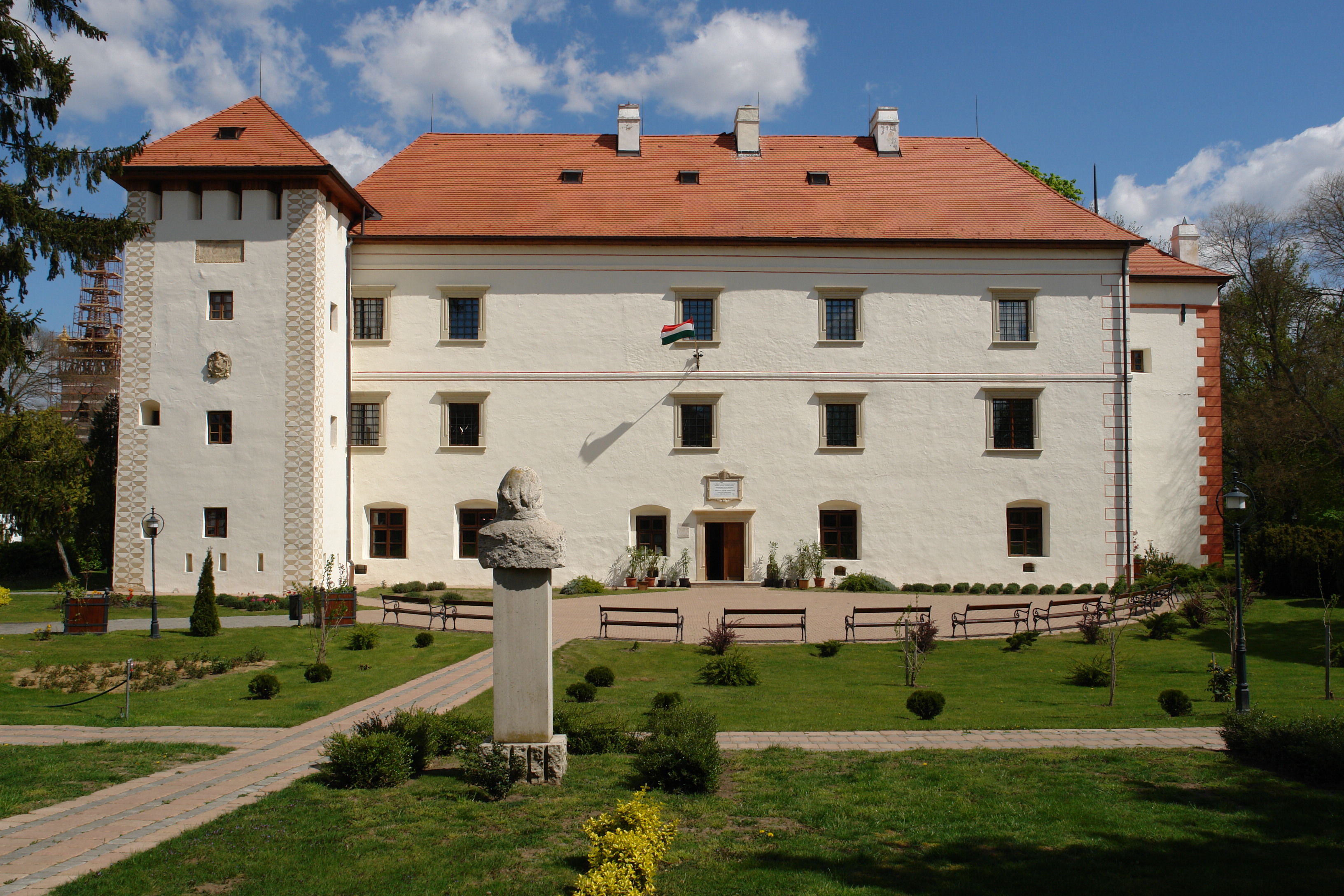 Mansion Vay and its park, Vaja, Hungary This is a photo of a monument in Hungary. Identifier: 8520